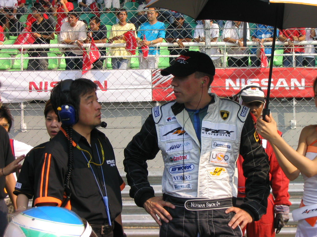 Norman Simon waiting to get in the Lamborghini Murcielago R-GT for the Japan GT Championship race.